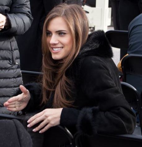 Allison Williams, daughter of Brian Williams and a cast member on the TV show "Girls" on Inauguration Day, January 21, 2013. (Alison Klein/VOA)